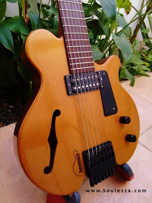 Soulezza "Jazz Standard Model" 7ST - 7 String Guitar